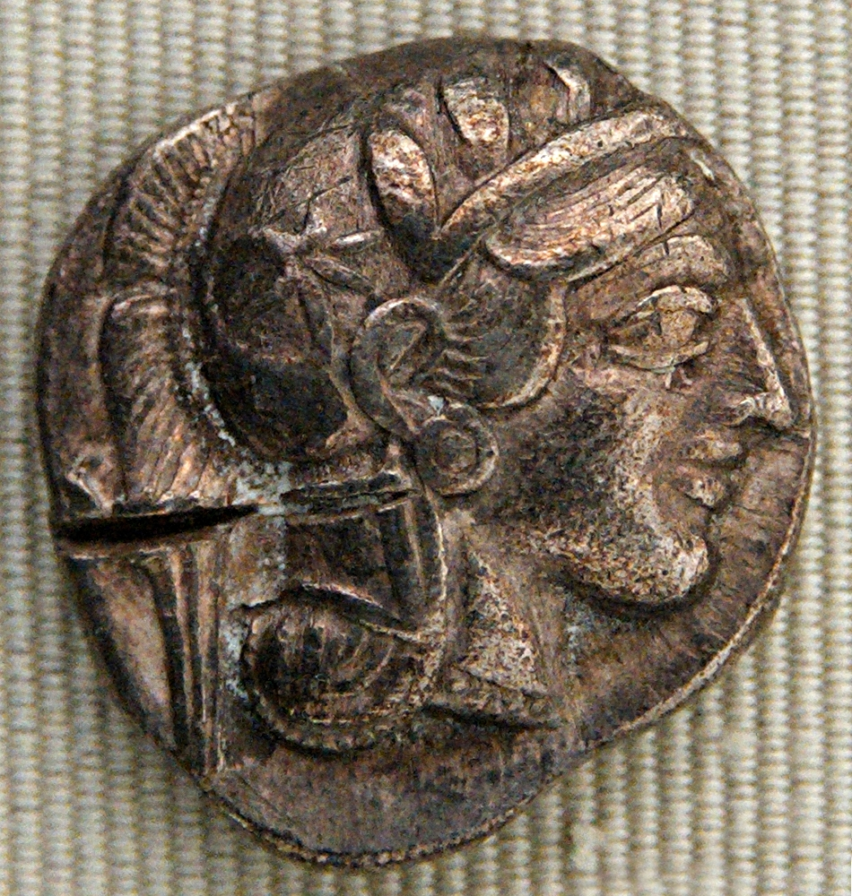 Silver tetradrachm issued by Athens, ca. 450s BC, obverse: head of Athena with helmet, facing right.